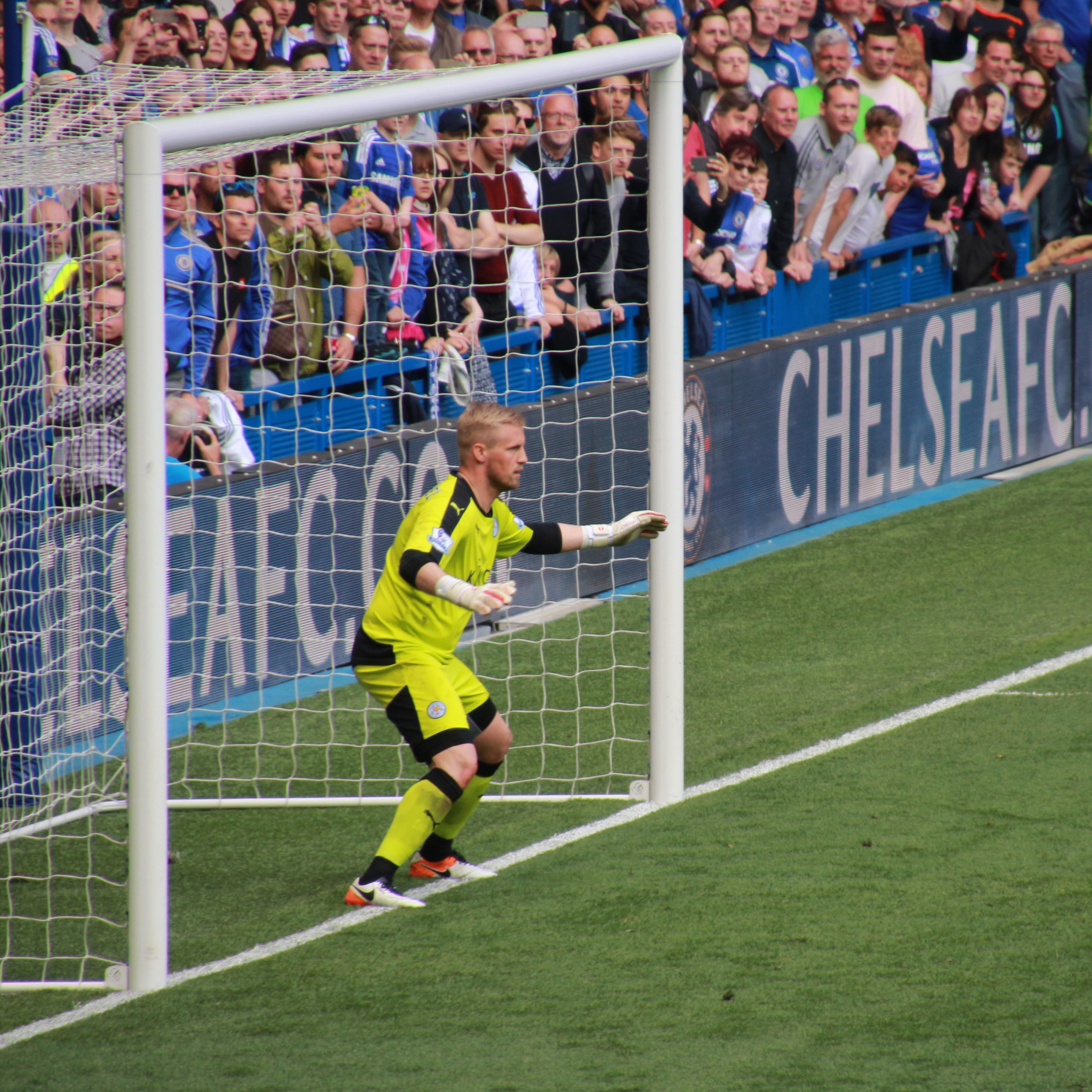 Chelsea 1 Leicester 1